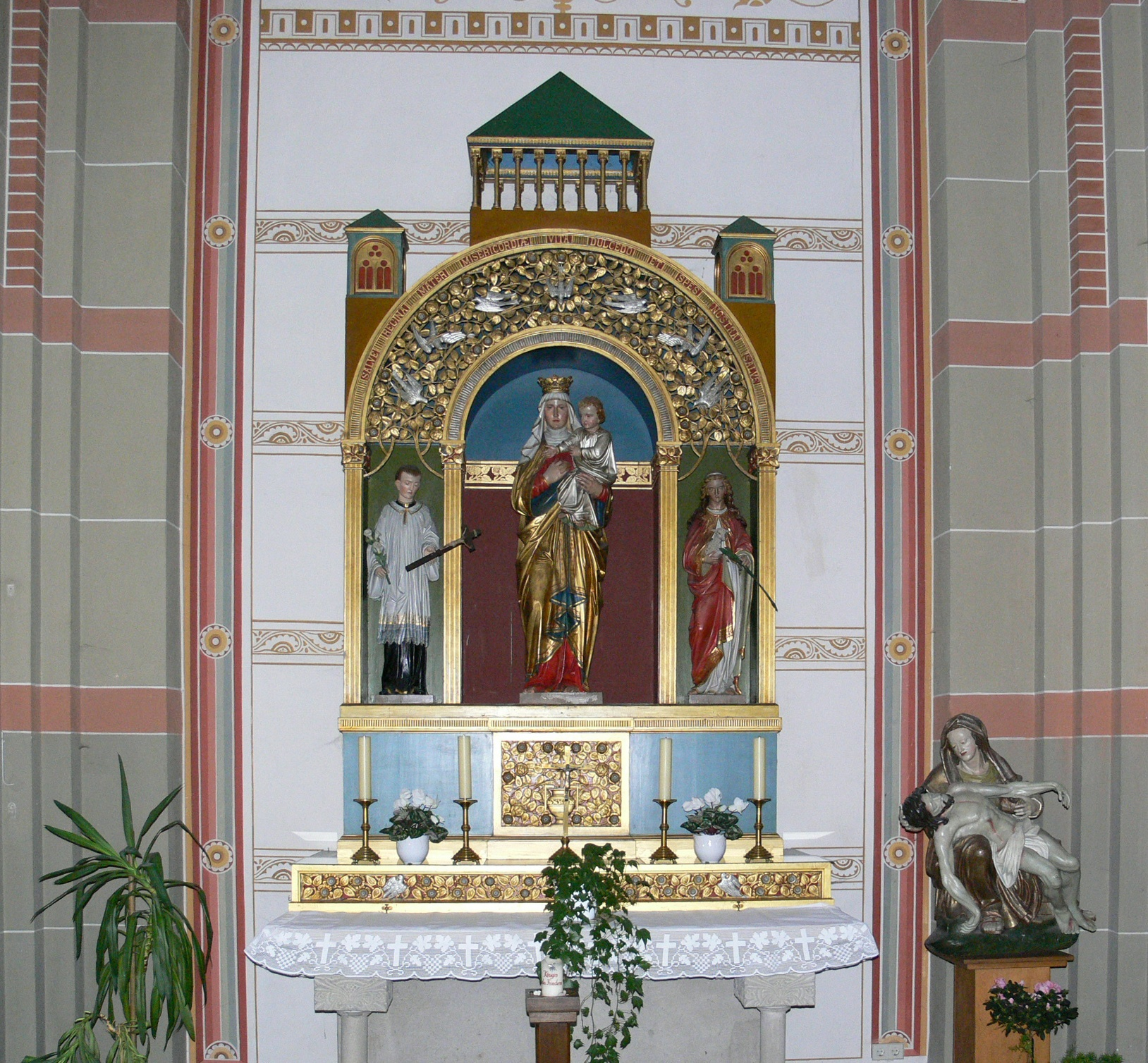 Pfarrkirche St. Martin, Hundersingen, Marienaltar von Theodor Schnell d. J., 1906 Theodor Schnell the Younger (1870–1938) DescriptionGerman sculptorDate of birth/death8 May 187025 February 1938Location of birth/deathRavensburg, GermanyRavensburgWork locationRavensburg, MünchenAuthority control : Q2418268 VIAF: 90982111 GND: 138723869